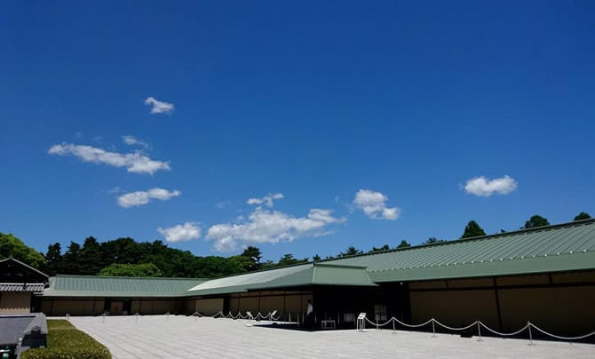 Side view of Kyoto State Guest House.Contemporary Japanese style fuses the panache and beauty rooted in Japan's long architectural tradition with modern construction methods.